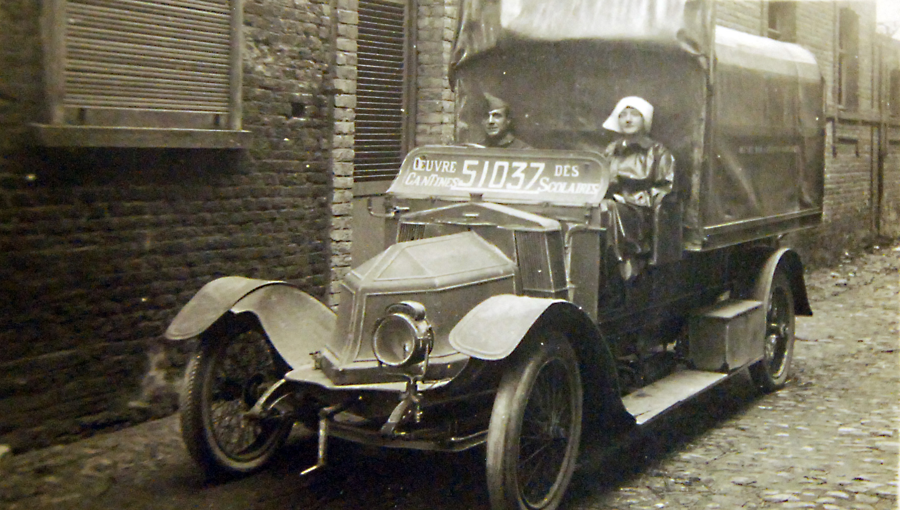 Lot-6411-Box-2-4: WWI-Activities in France. This ambulance has been in service for two years, and has saved over 200 people who were hidden in cellars during heavy bombardments. Courtesy of the Library of Congress. (2017/01/13).